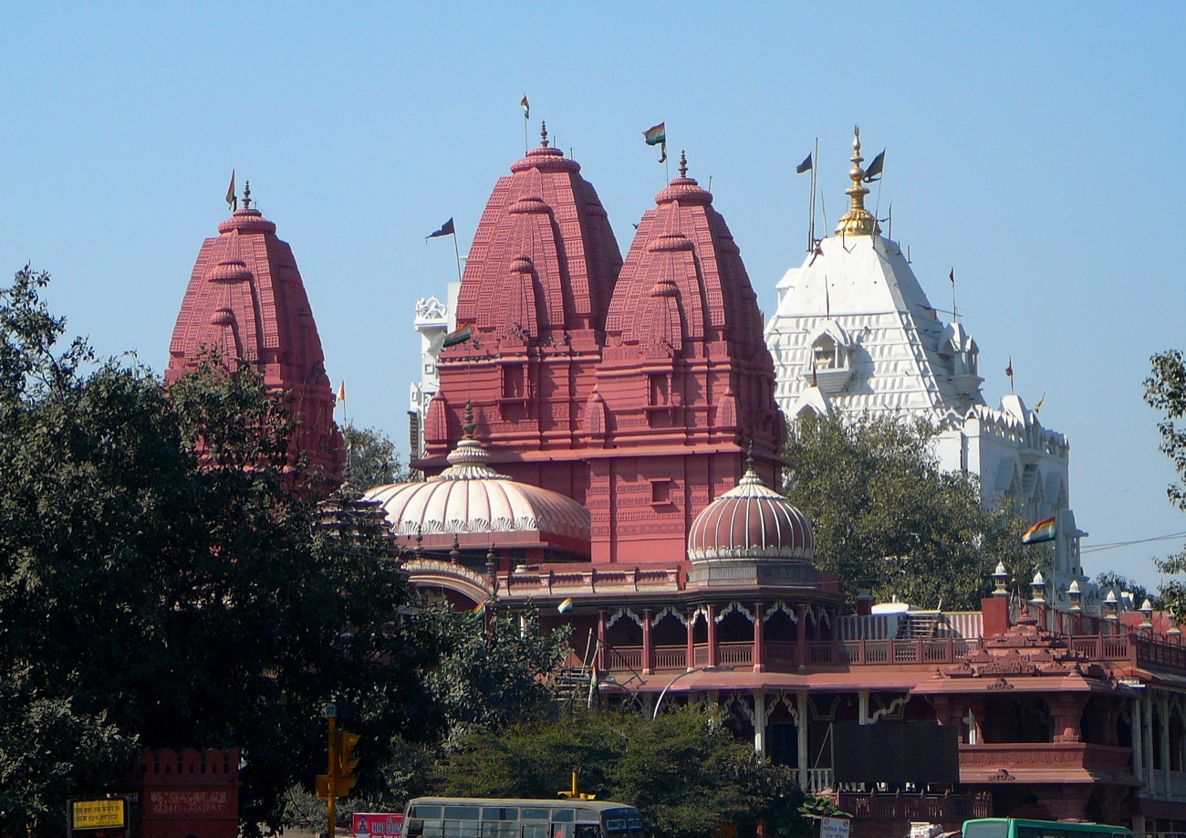 Digambar Jain Lal Mandir, Chandni Chowk, Delhi. Also seen is the Gauri Shankar temple in the backdrop.